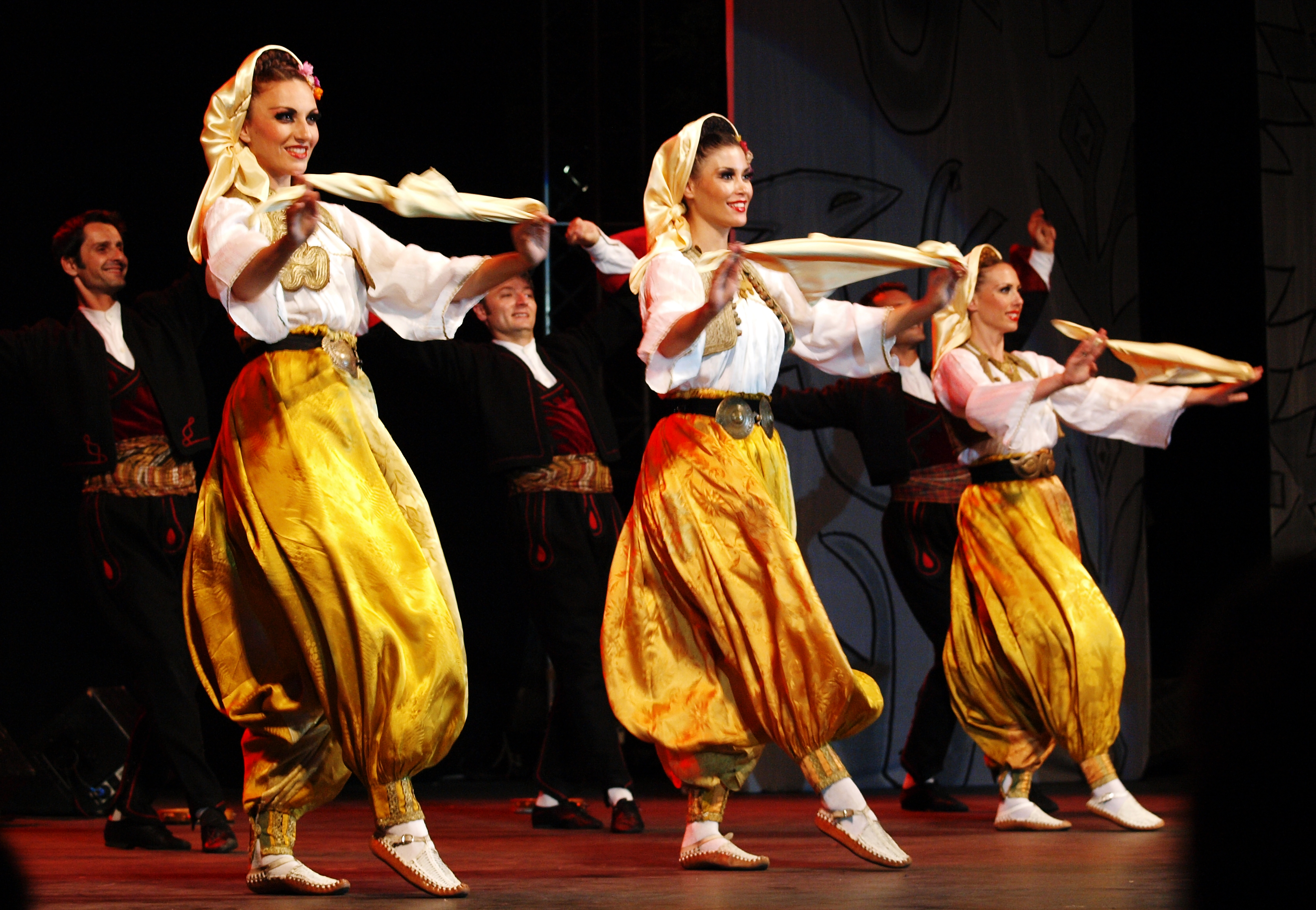 National ensamble KOLO from Belgrade performing "Vranjanska svita", a play from Vranje vicinity, south Serbia. Womans are wearing dimije or so called schalwar.